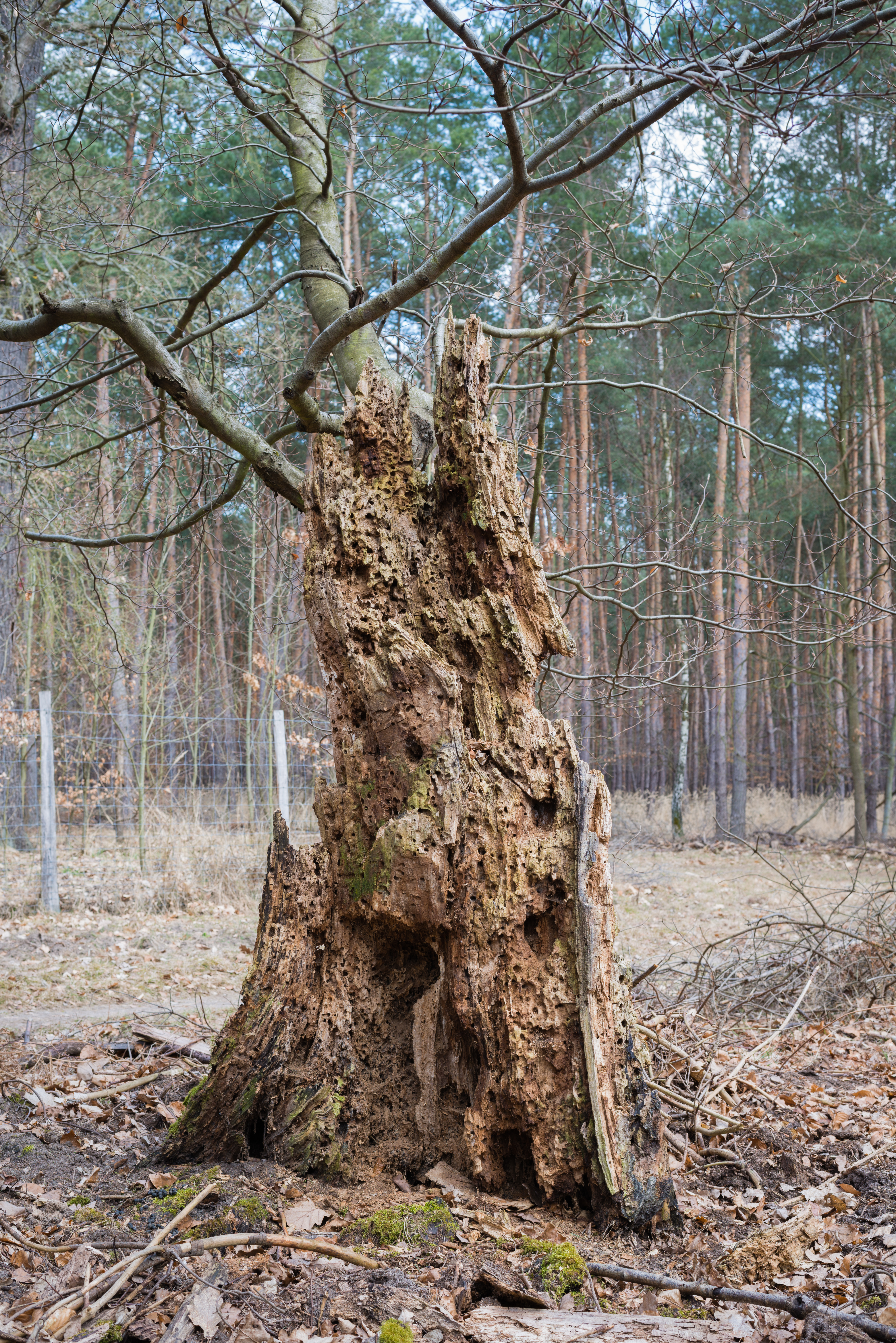 Dead tree trunk with insect nests in the forest near Mörfelden-Walldorf, Hesse, Germany.